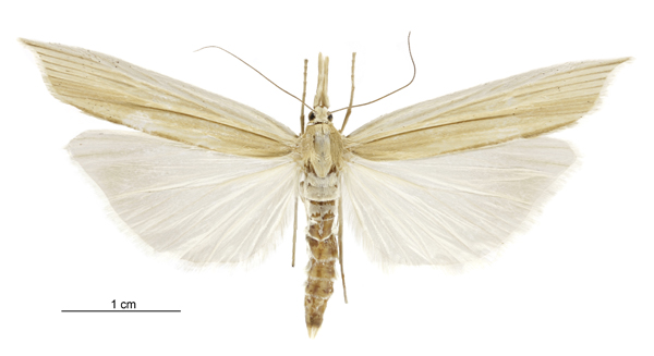 Female specimen of Orocrambus angustipennis photographed by Birgit E. Rhode, Landcare Research New Zealand Ltd.